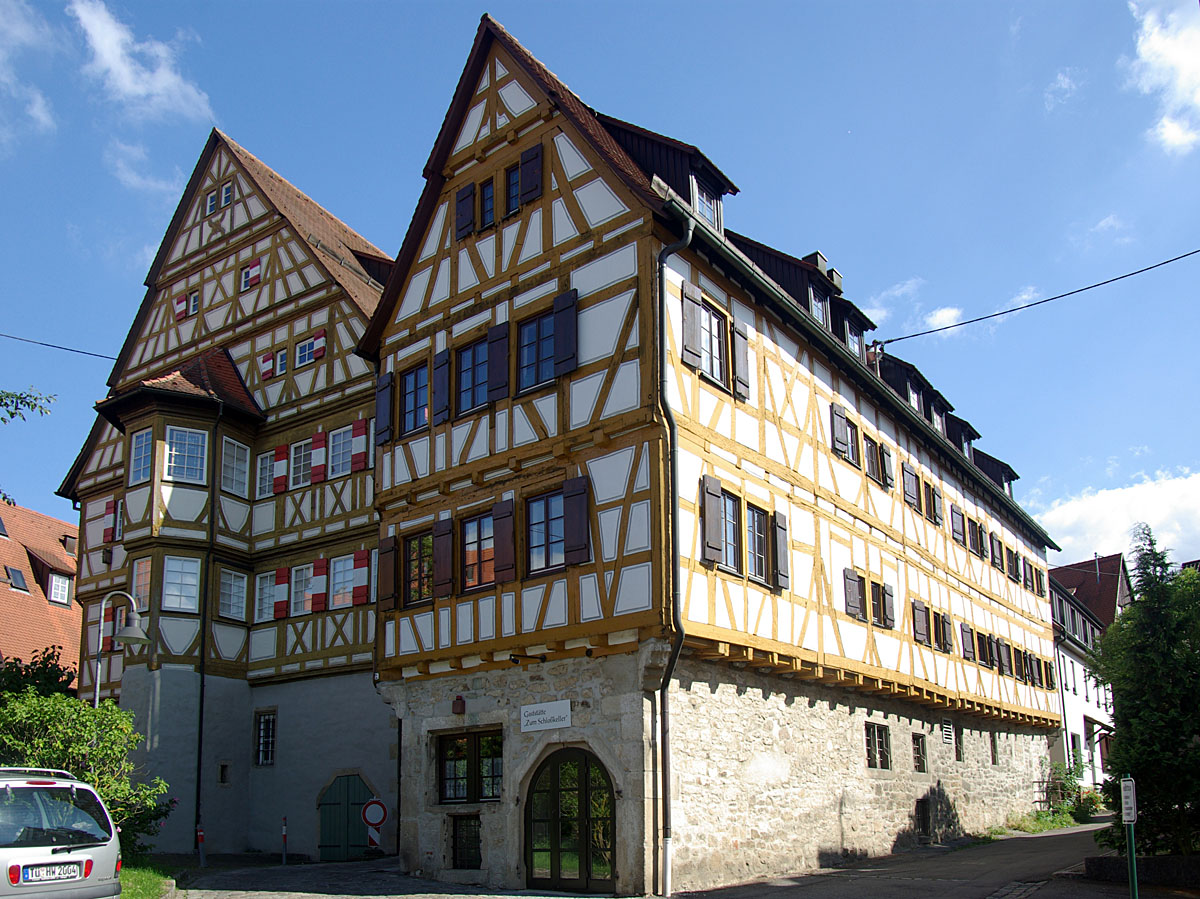 Restaurant Zum Schlosskeller in Kirchentellinsfurt